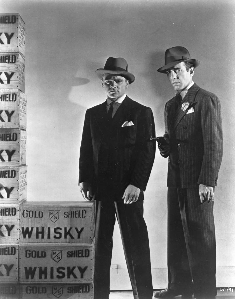 James Cagney and Humphrey Bogart in American gangster film The Roaring Twenties (1939). See also film still. No copyright notice.